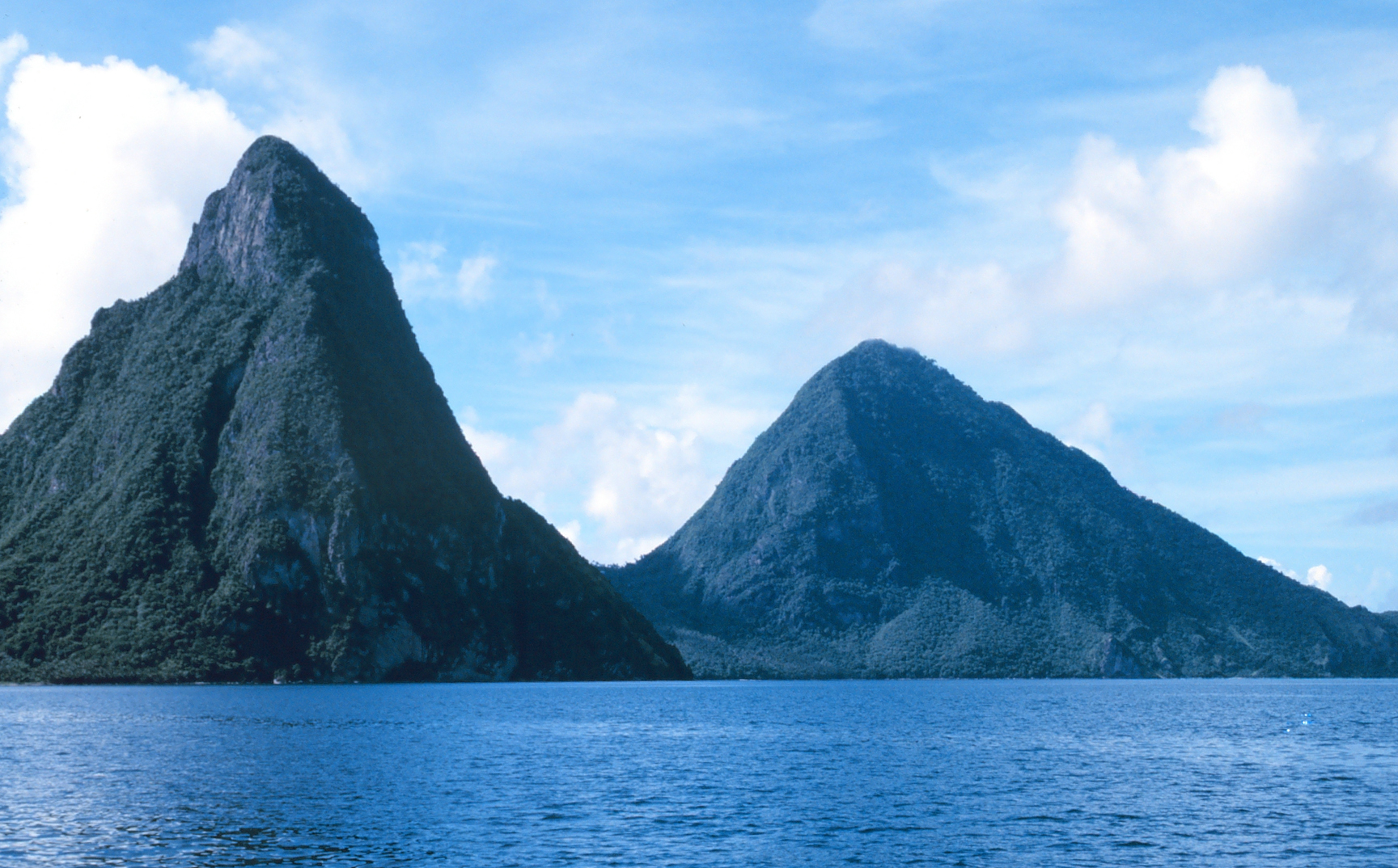 The Pitons from offshore, St. Lucia